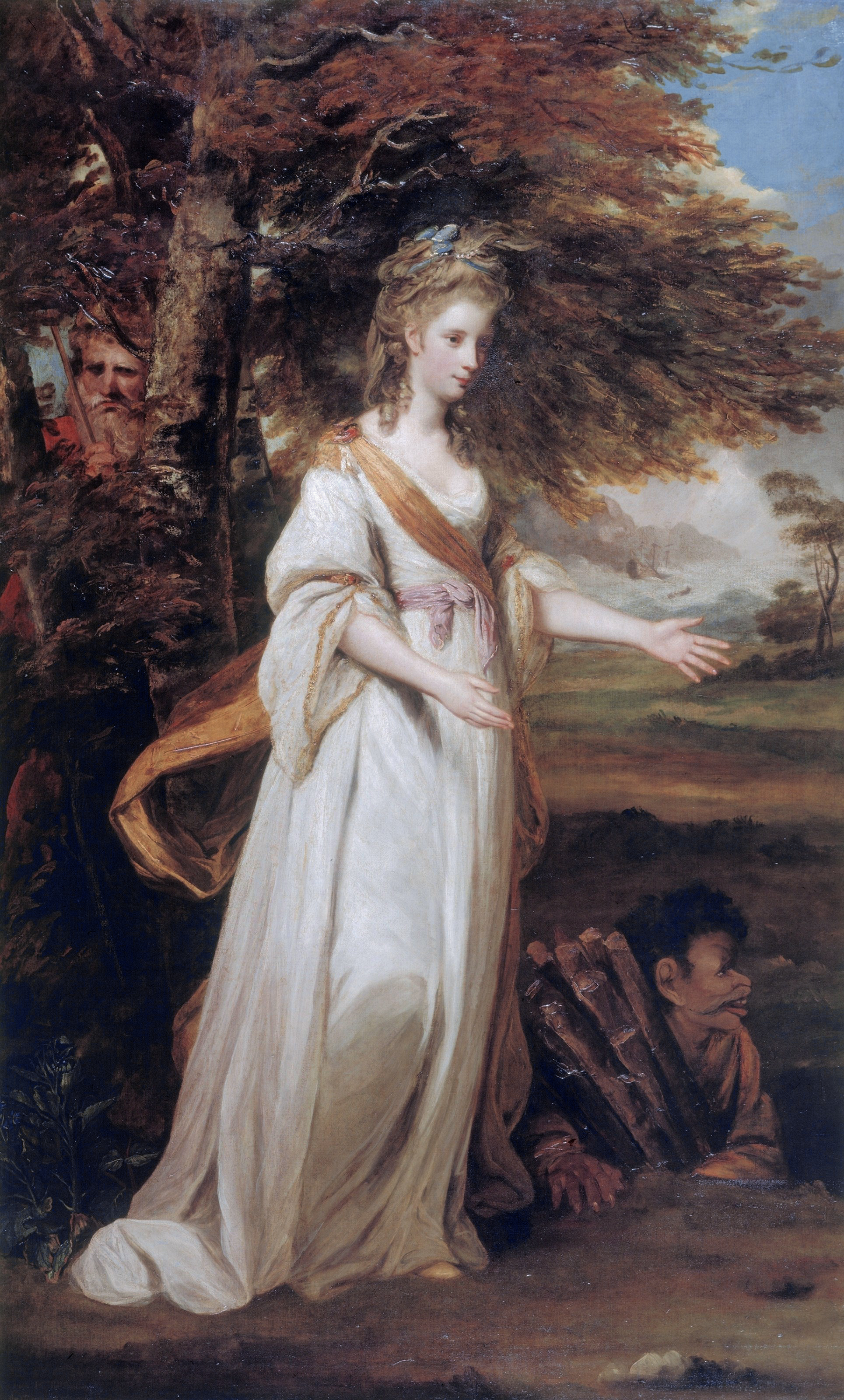 Portrait of Anna Maria Lewis, Mrs Tollemache, later Countess of Dysart (d. 1804)